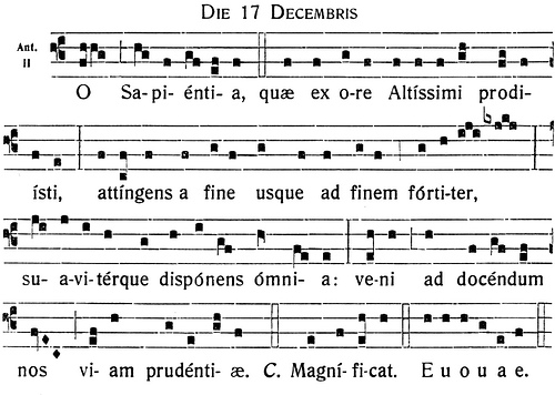 O Sapientia